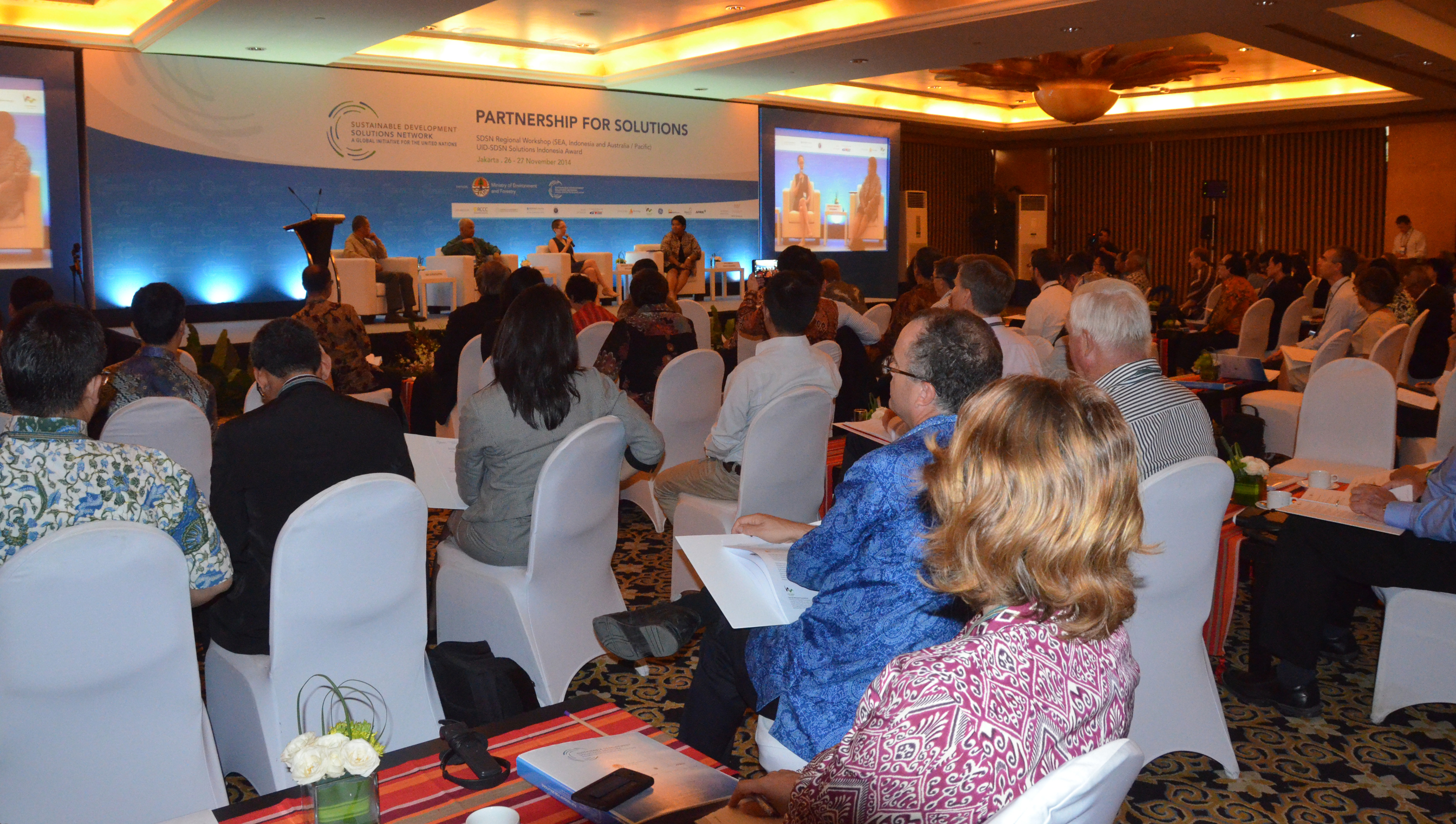 SDSN Regional Workshop Priorities and Pathways for Sustainable Energy and Deep Decarbonization in Indonesia